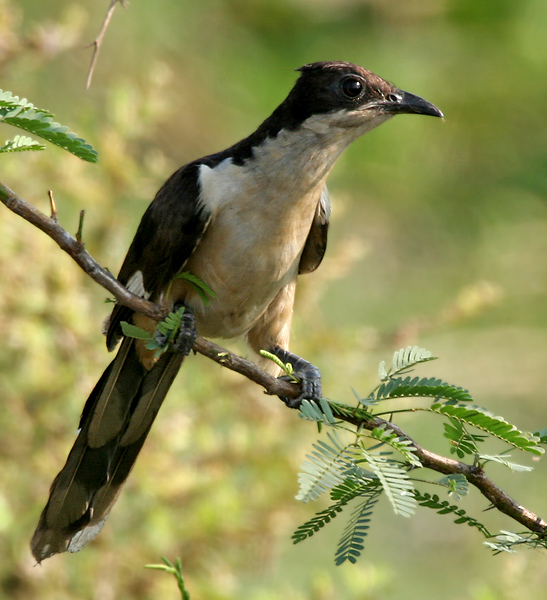 Pied Cuckoo, Pied Crested Cuckoo, or Jacobin Cuckoo Clamator jacobinus in Kolleru, Andhra Pradesh, India.